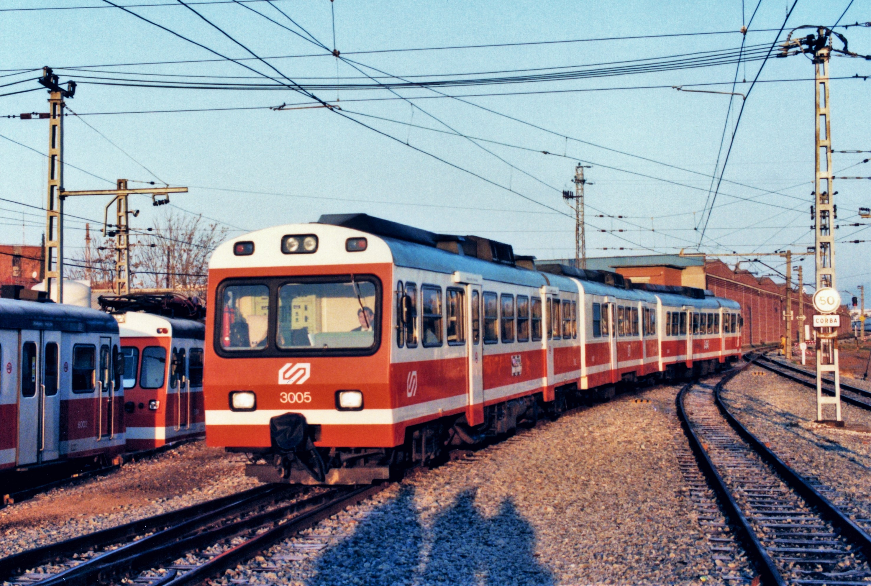 The DMU with cars 3005-4001-3006 of FGC, arrives at Martorell Enllaç, working the train P402 from Igualada to Barcelona.